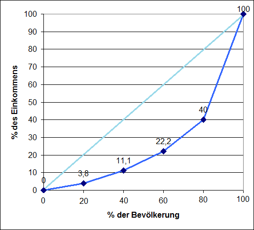 Lorenz curve Chile 2003, source: [1]